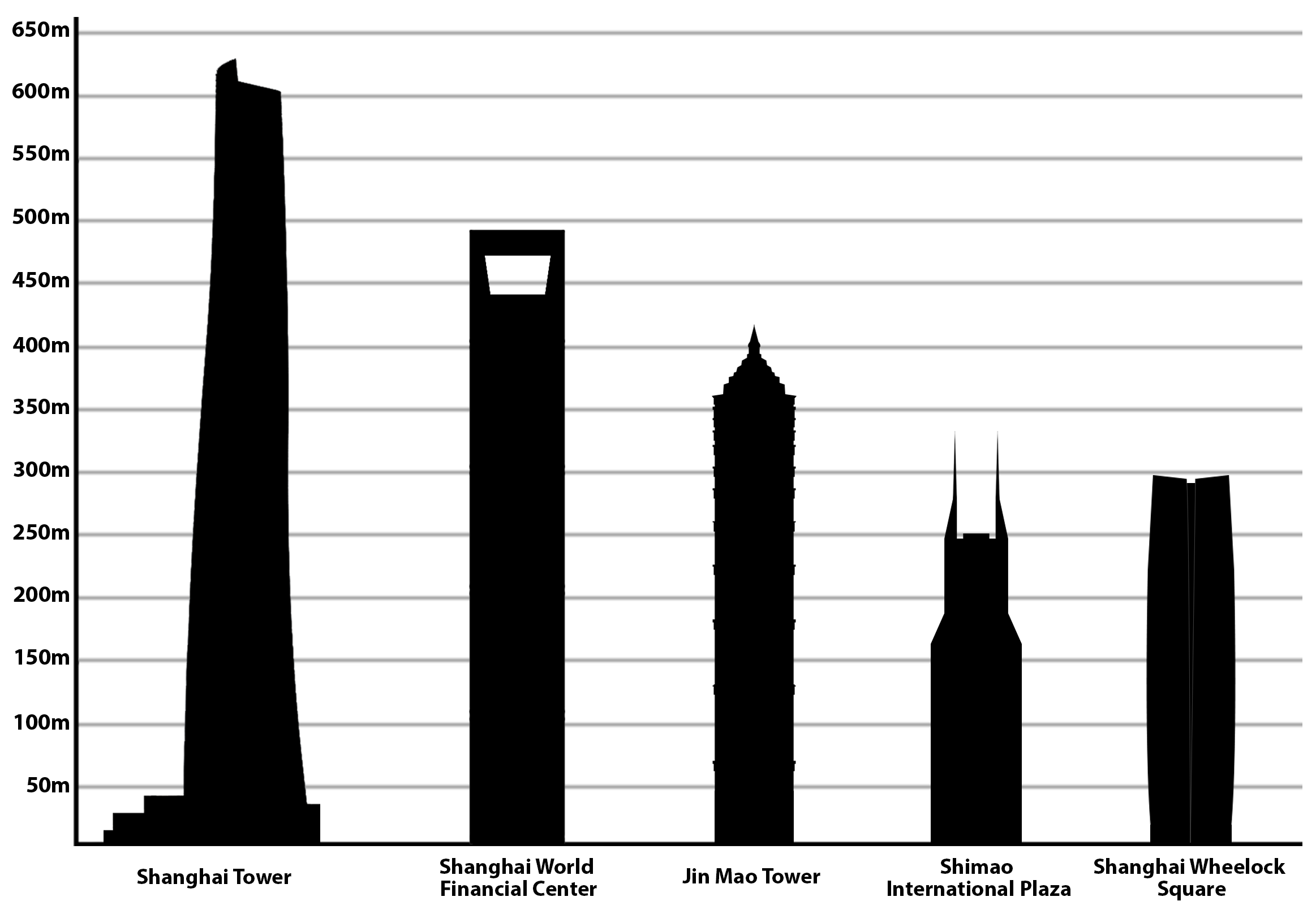 Tallest buildings in Shanghai, Used data from .